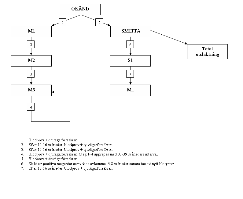 Swedish maedi-visna control programme, swedish version